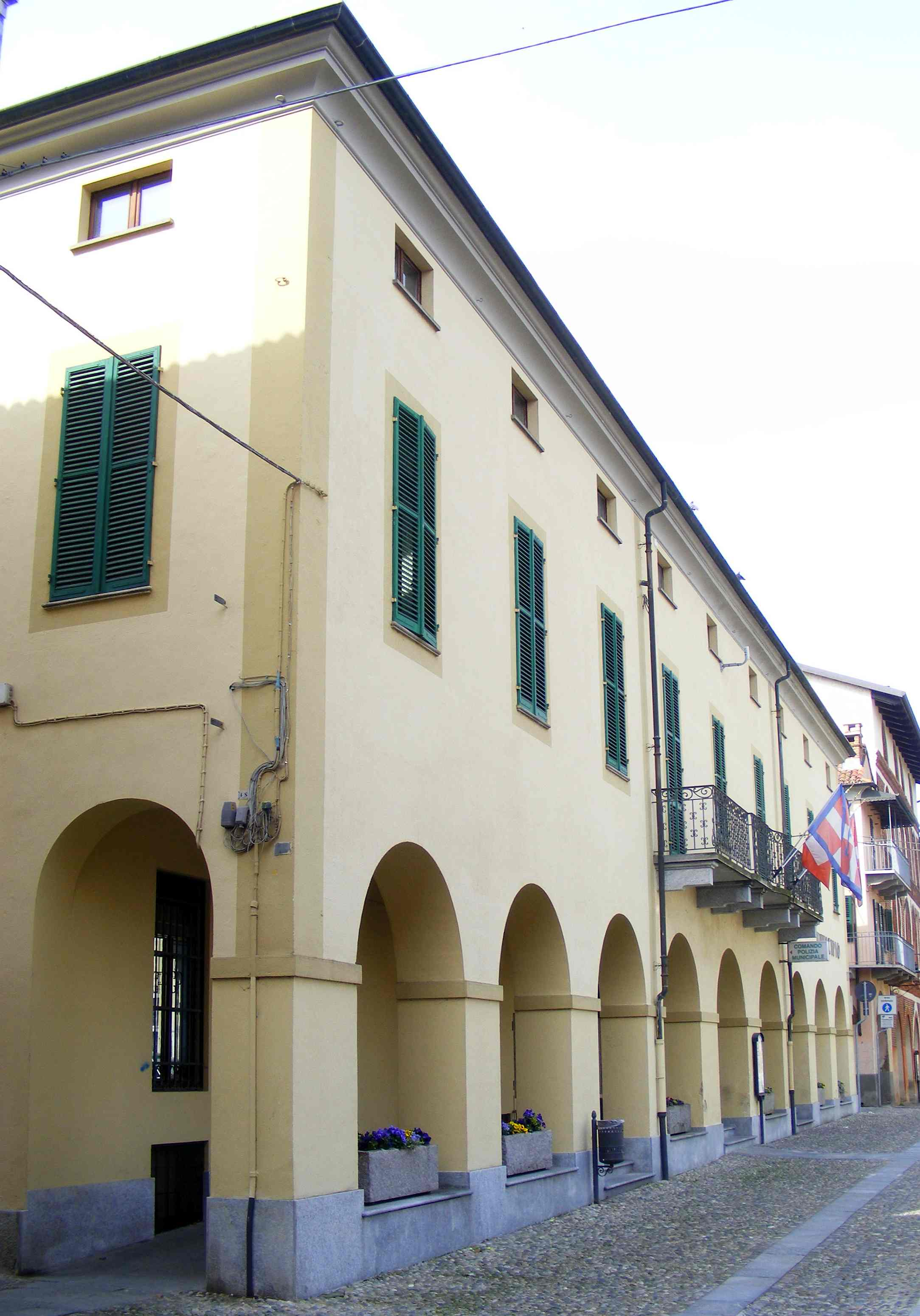 Poirino (TO, Italy): town hall